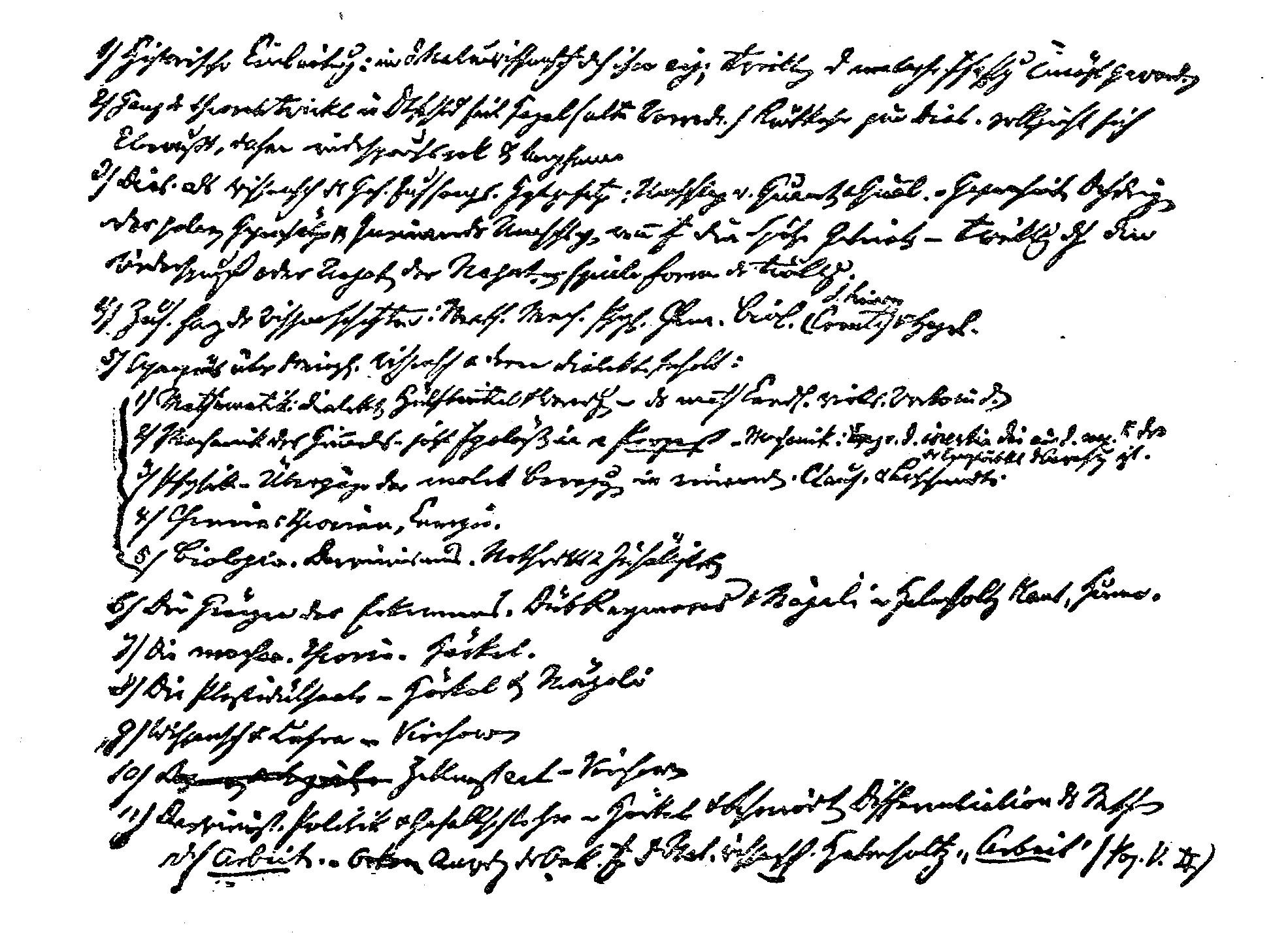 A page from the Dialectics of Nature manuscript